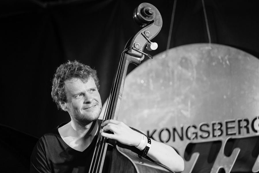 Bjørn Marius Hegge at Argus. The concert was part of Kongsberg Jazzfestival and took place on 05. July 2019 in Kongsberg. Lineup:Jonas Kullhammar (saxophone)Martin Myhre Olsen (saxophone)Vigleik Storaas (piano)Håkon Mjåset Johansen (drums)Bjørn Marius Hegge (double bass)